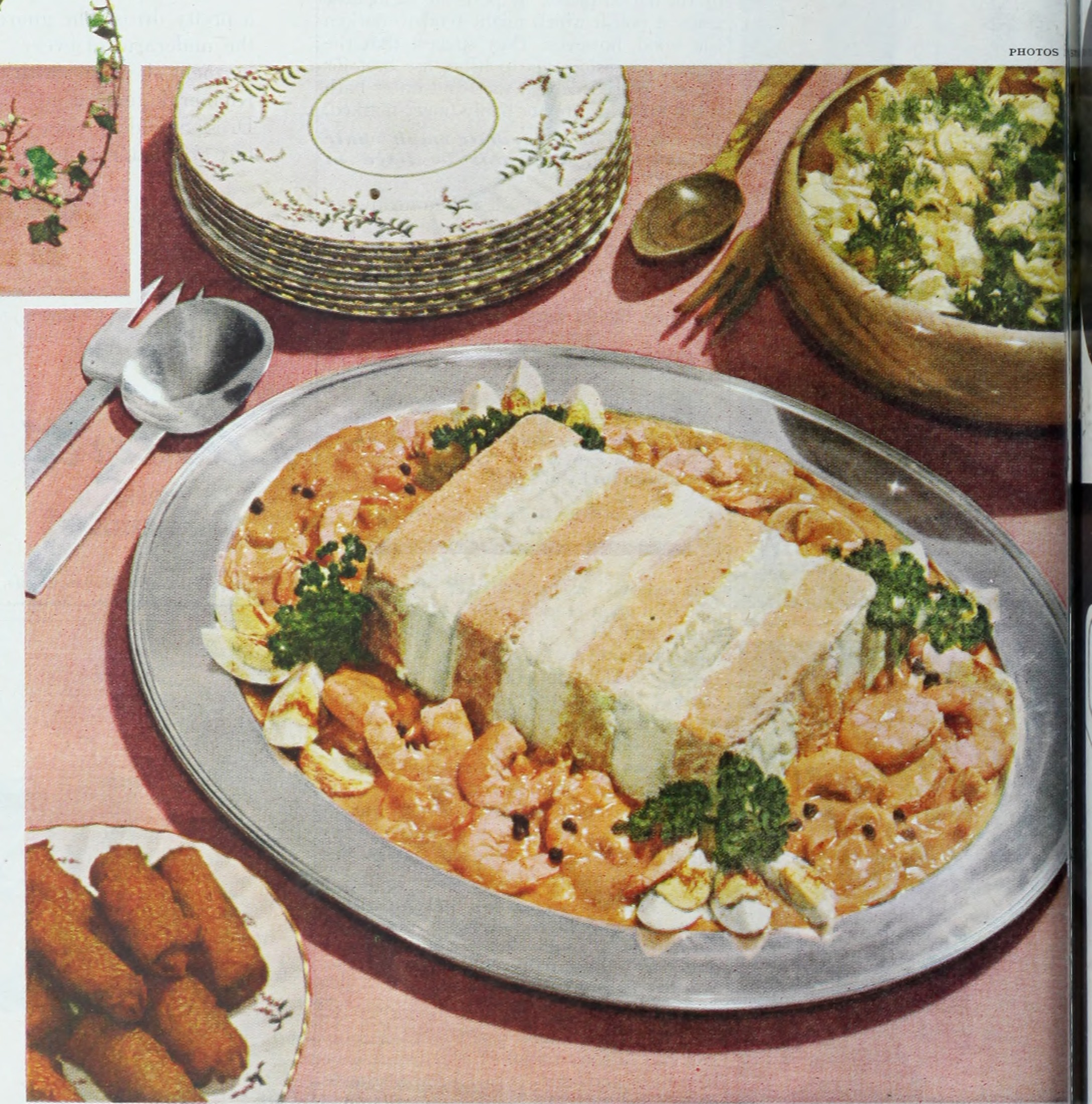 A pink and white timbale of salmon and sole Title: The Ladies' home journal Year: 1889 (1880s) Authors: Wyeth, N. C. (Newell Convers), 1882-1945 Subjects: Women's periodicals Janice Bluestein Longone Culinary Archive Publisher: Philadelphia : (s.n.) Text Appearing Before Image: ' Text Appearing After Image: A pinli-and-whitv sva-food timbalv of salmon and .sole. With art-t-n salad and I rvnrh-lrivd roll